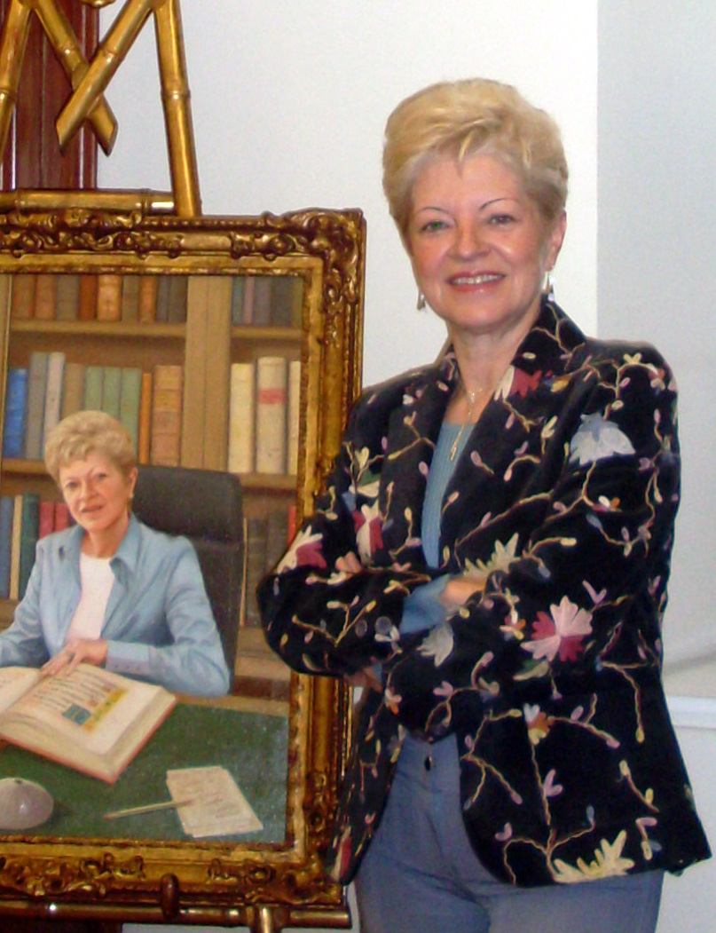 Milagros del Corral, Director National Spanish Library, at her office during an interview.